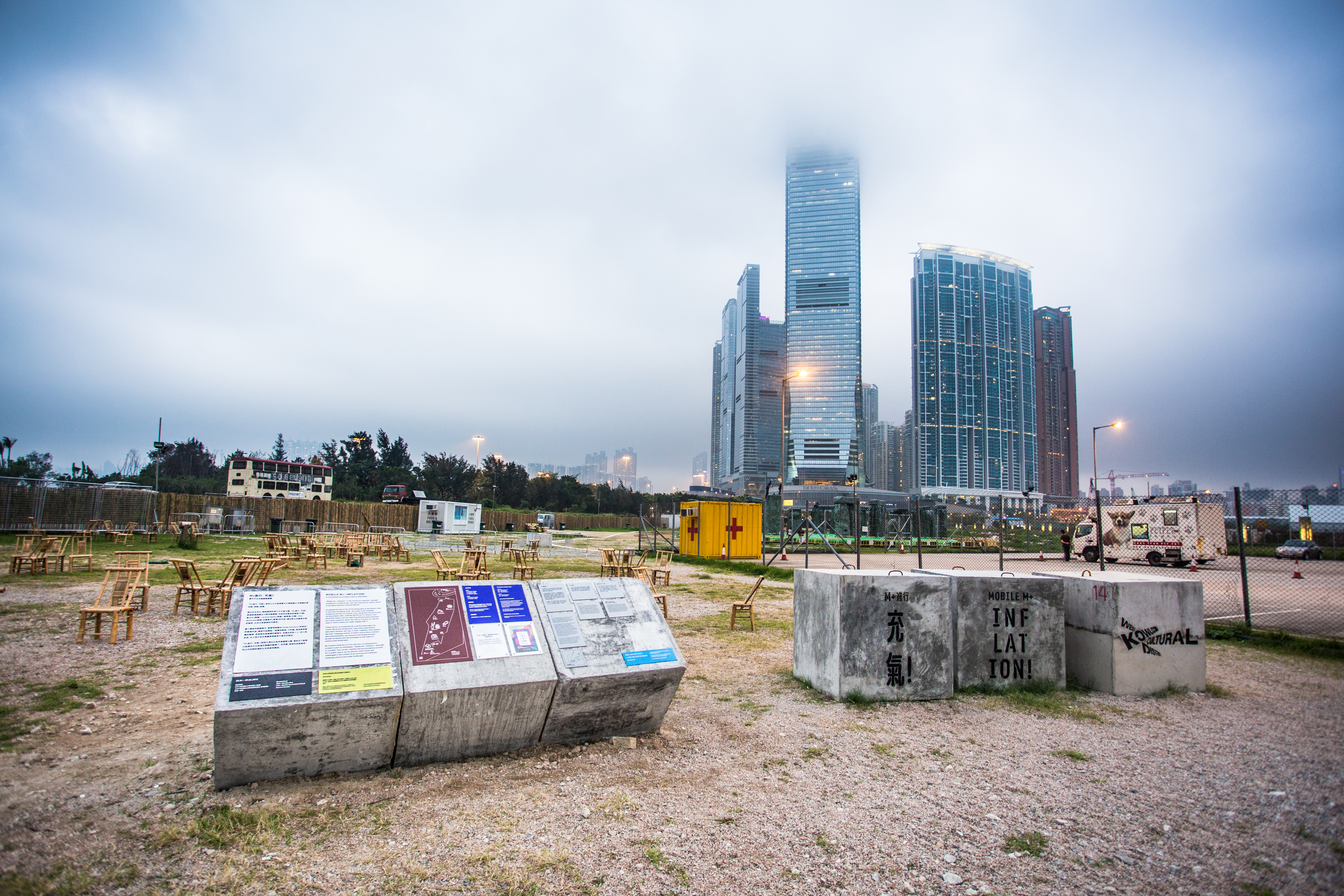 M+流行充氣當代戶外雕塑展覽 Mobile M+ Inflation (Con)temporary Sculpture Park